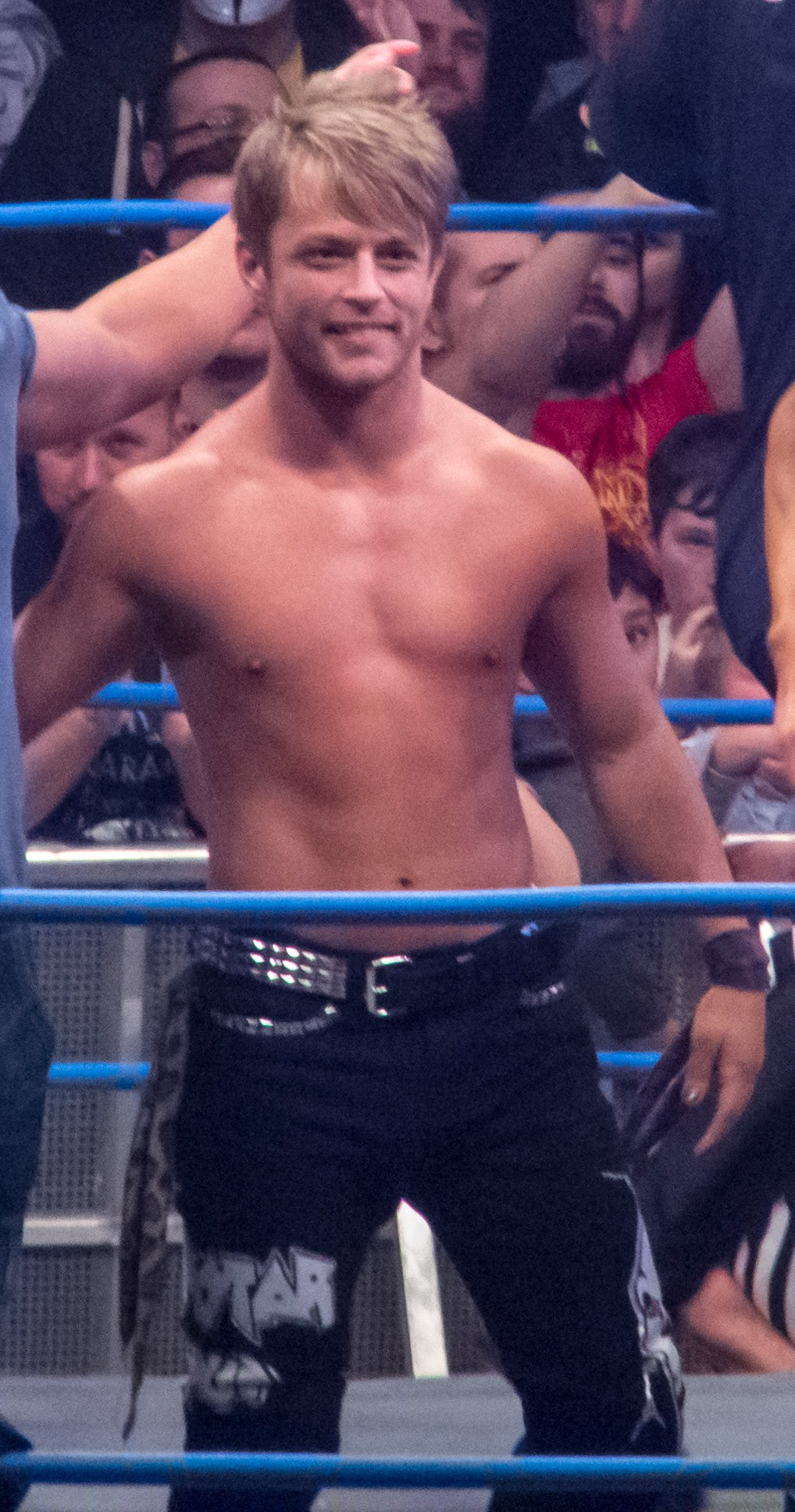 Rockstar Spud at the Impact! TV Tapings in Wembley, England on January 26, 2013.